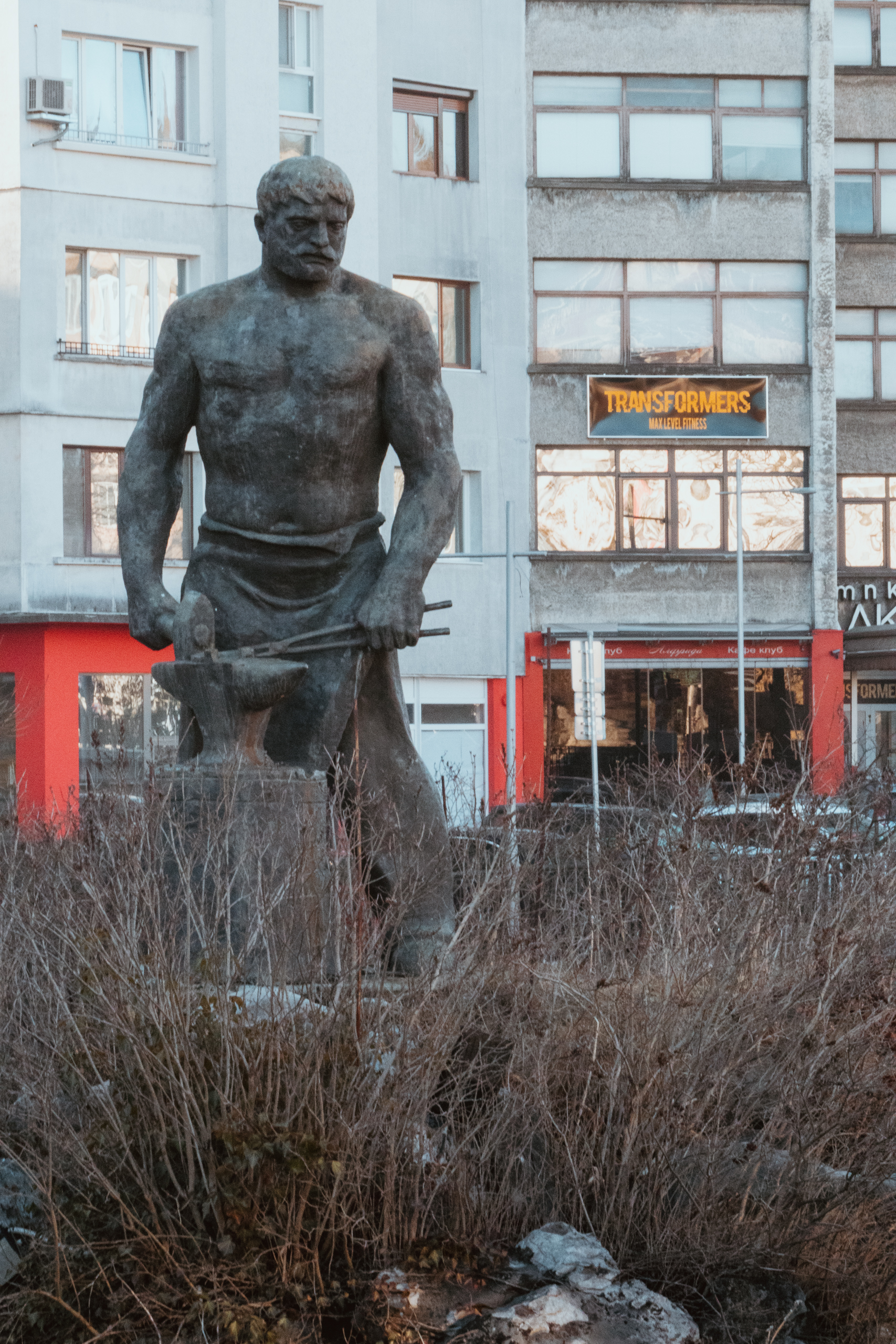 Ratscho Kowatscha Statue, Gabrovo